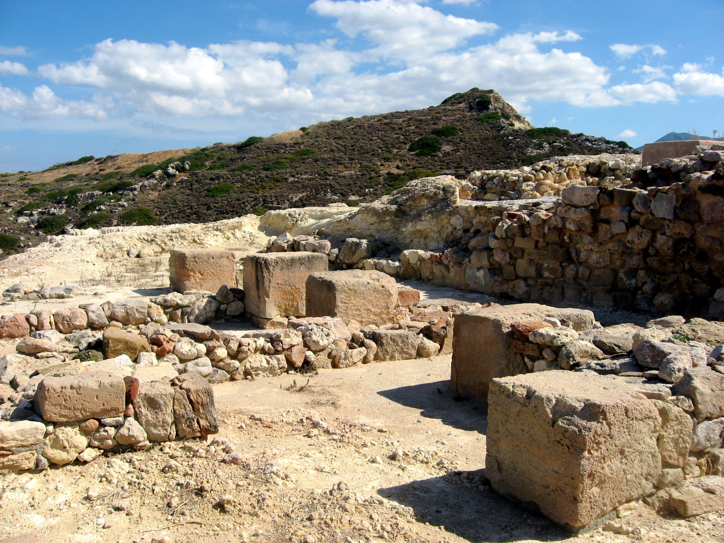 Minoan site of Petras Minoan archaeological site of Petras, East Crete, Greece